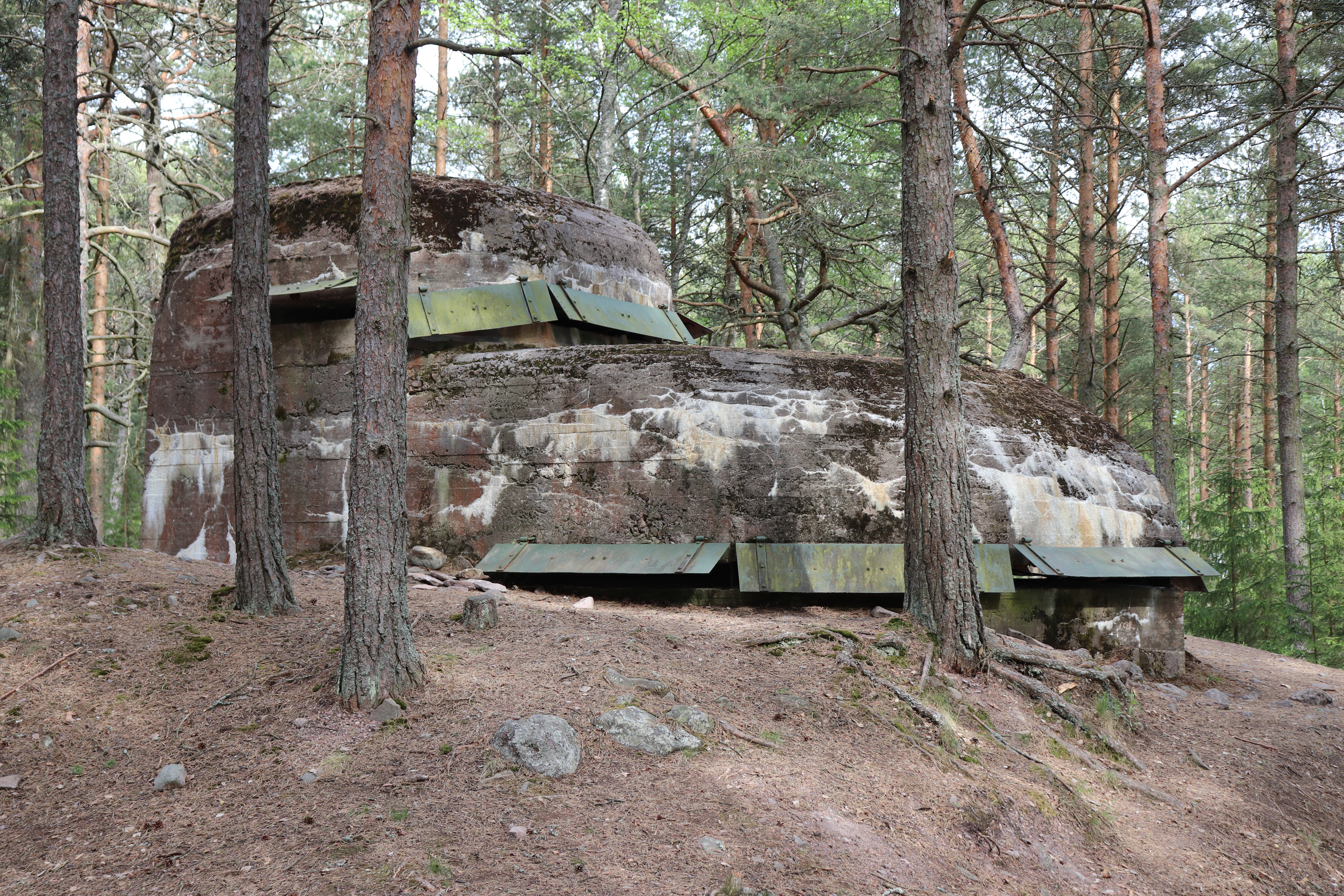 Bunker in Linnakepuisto, Reposaari, Pori.